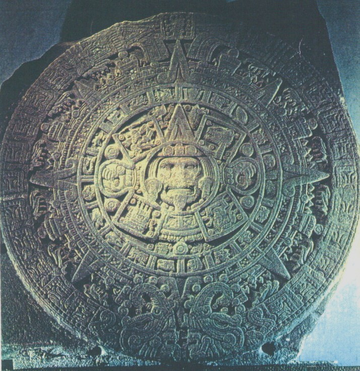 Photograph taken in the Museum of Anthropology and History in Mexico City, 1996